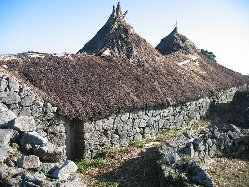 Hill Fort - Citânia of Sanfins - Paços de Ferreira - Portugal